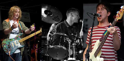 Sunset Cinema Club playing at the Tin Pan Alley Festival in London